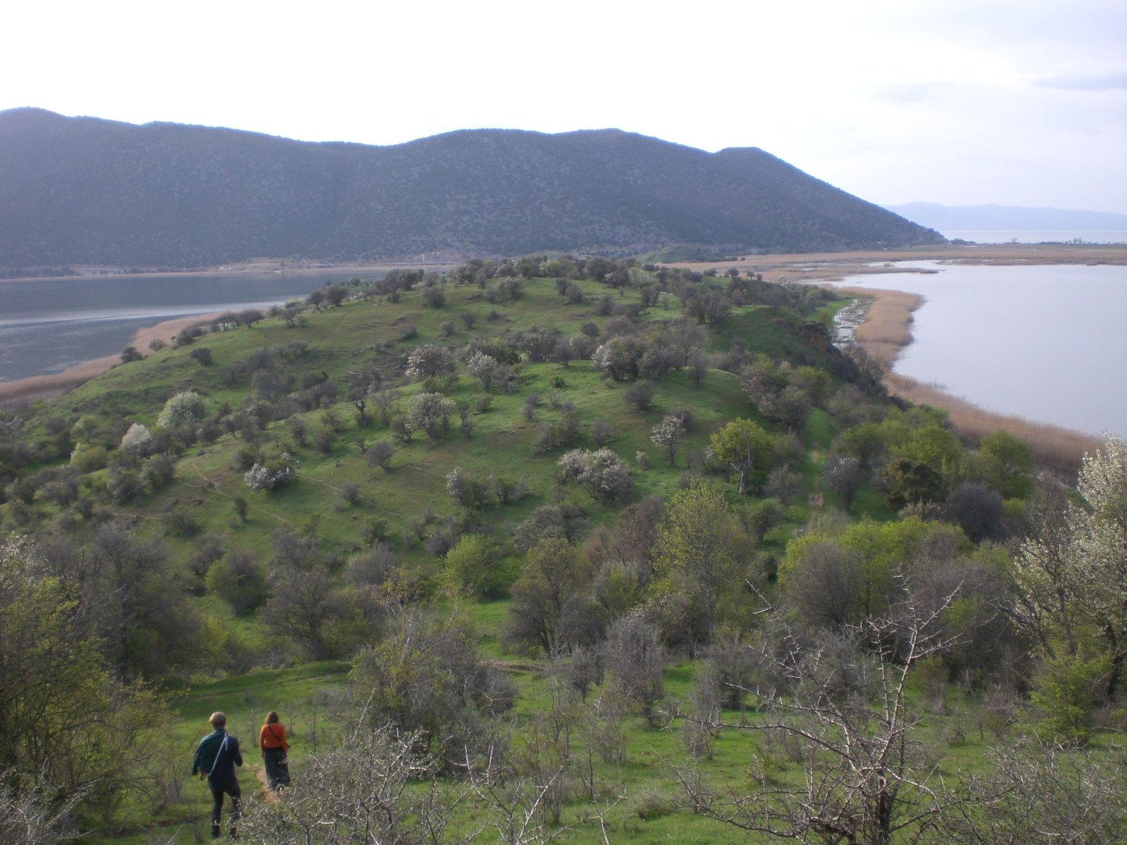 View from Summit of Agios Axillios in Lake Prespa, Greek side